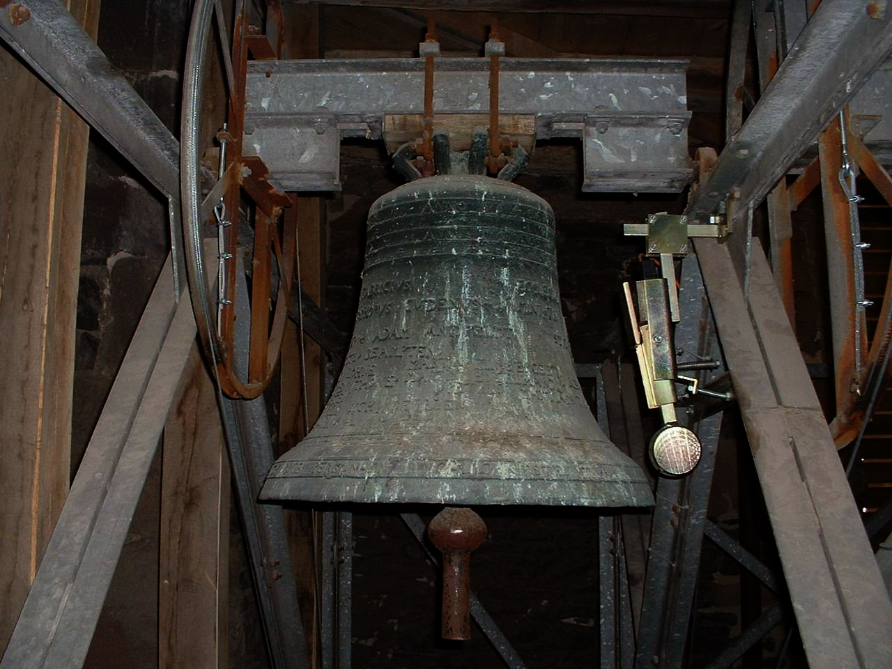 The death knell and history bell (?) of 1654 in St. Mary's Church, Homberg, Hesse, Germany.